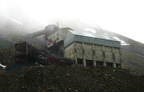 An abandoned mine in Longyearbyen, Svalbard, Norway. This is Mine Number5 (Gruve 5)